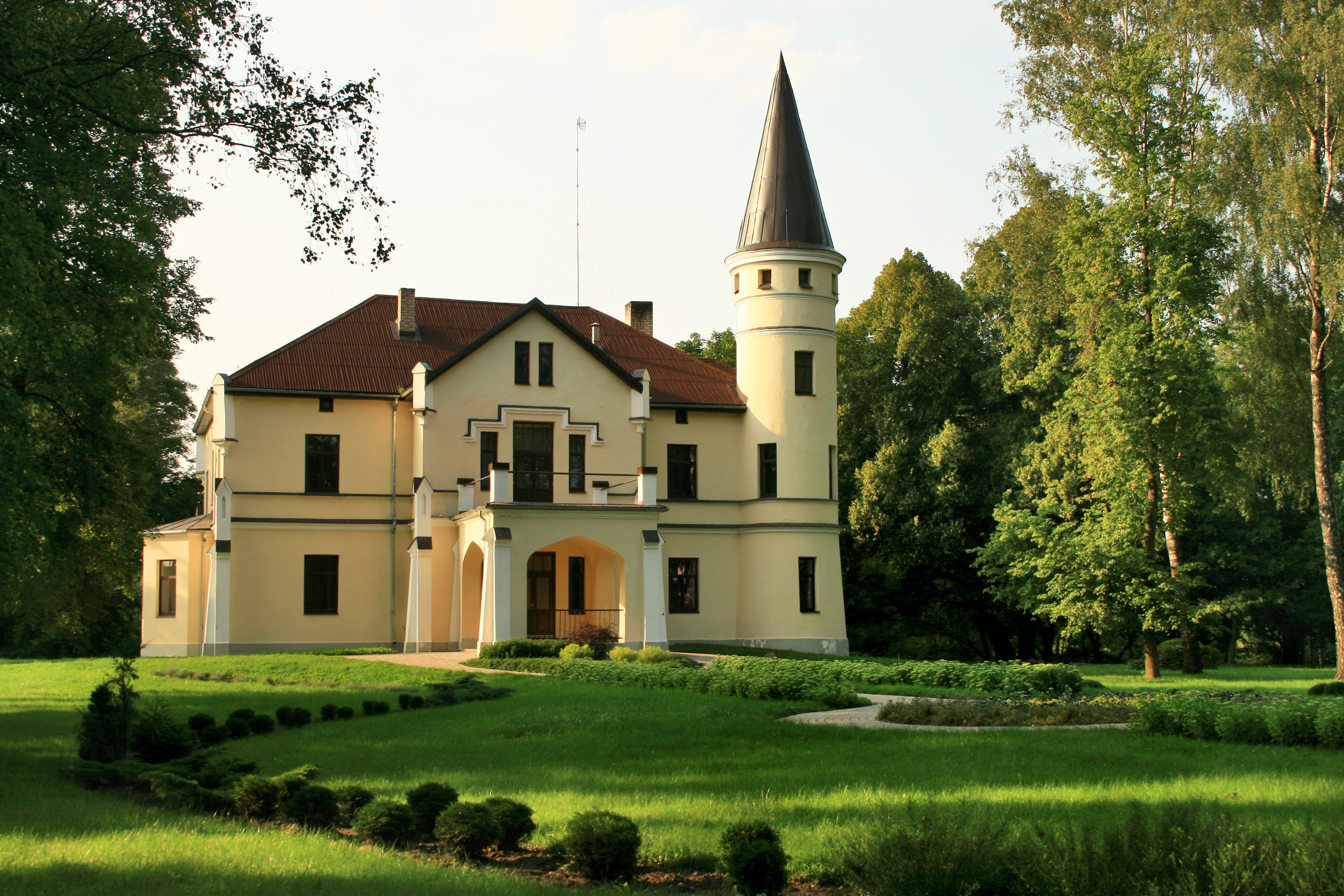 Behnen manor houseLatviešu: Bēnes muižas pils